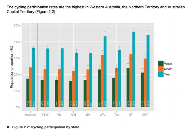 Participation of people cycling in Australia from 2015